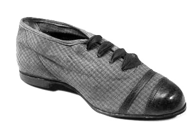 The original Batovka shoe